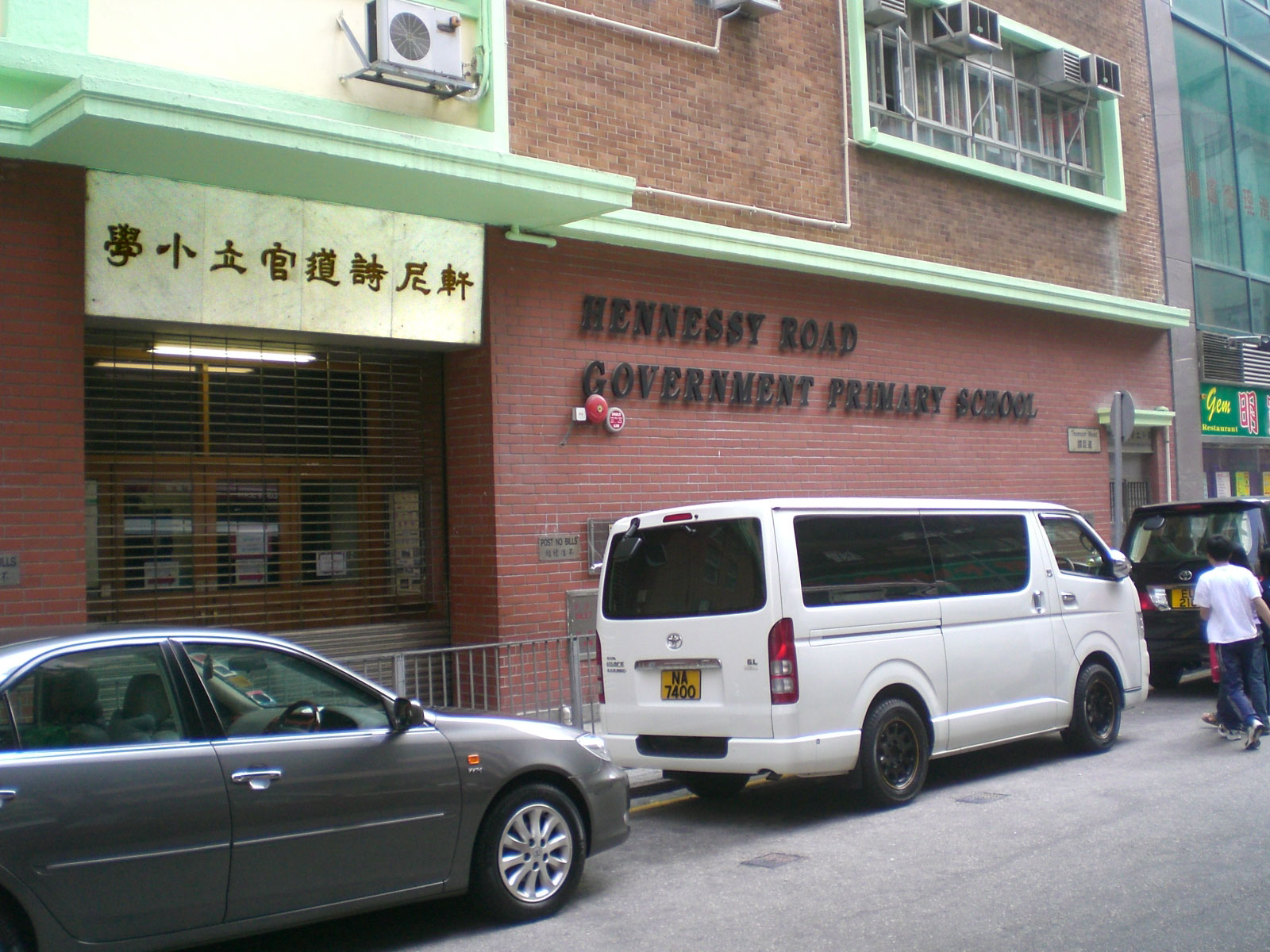 譚臣道, Hennessy Road Government Primary School, Thomson Road, Wan Chai, Hong Kong.